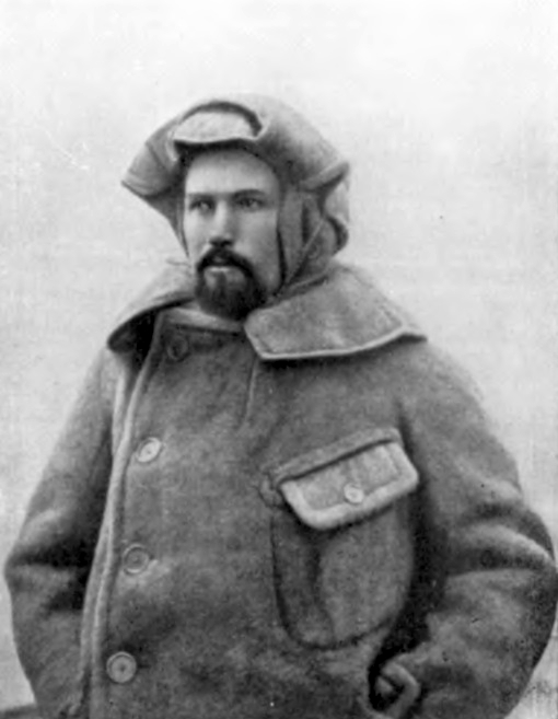 Nicolai Hanson norvegian zoologist of the Southern Cross Expedition 1899-1900